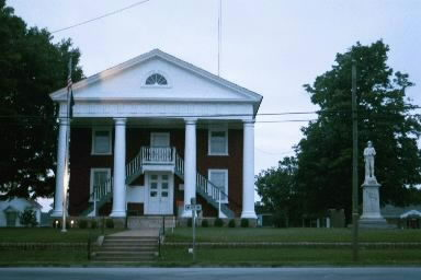 Lunenburg Courthouse Historic District